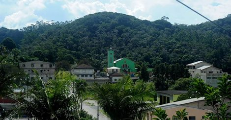 The most important feature of Tapiraí is its huge area of Atlantic Forest, with 80% of the territory listed as Environmental Protection Area - APA and declared a Biosphere Reserve in 1992.